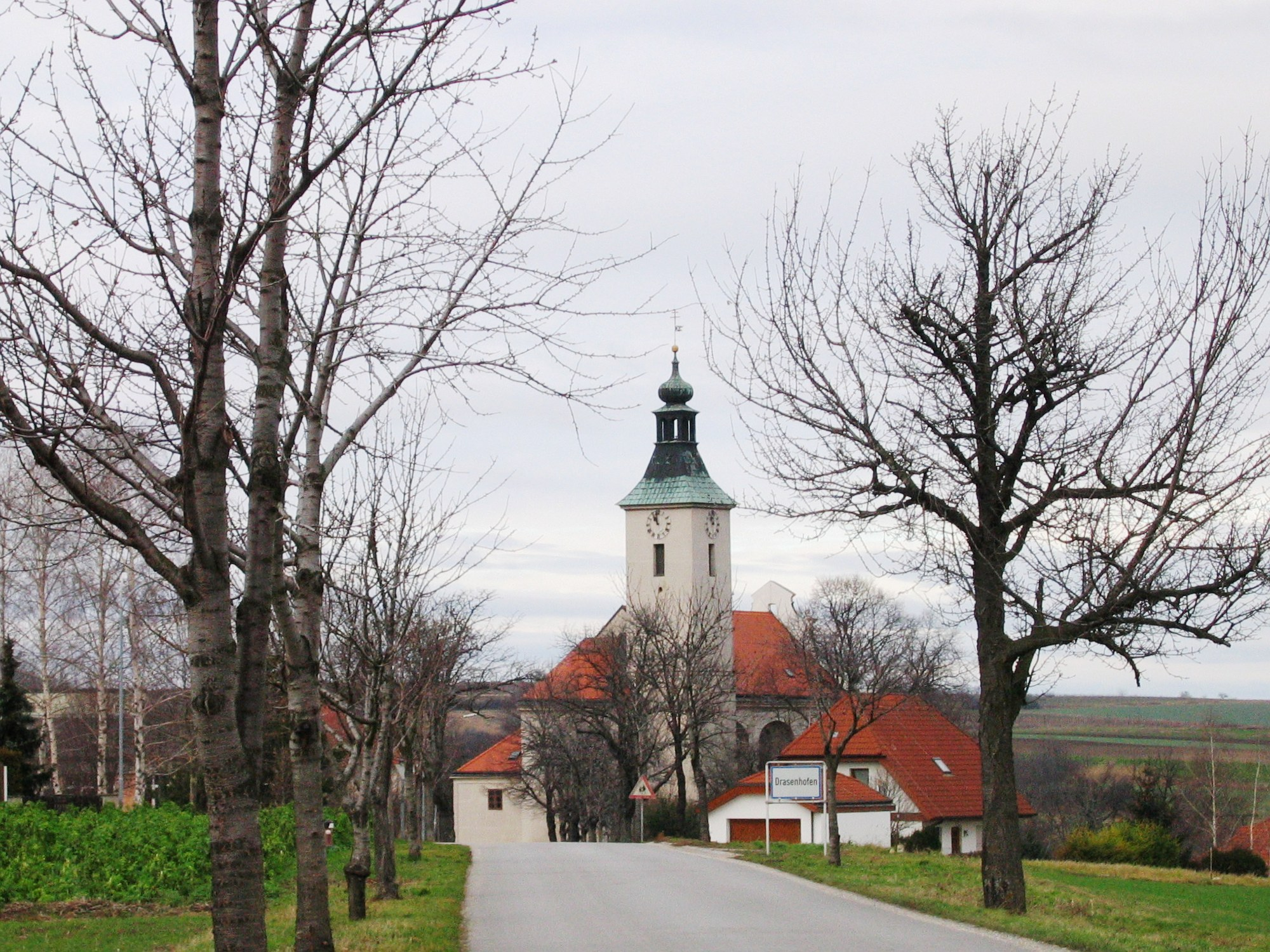 Church of Drasenhofen in Lower Austria